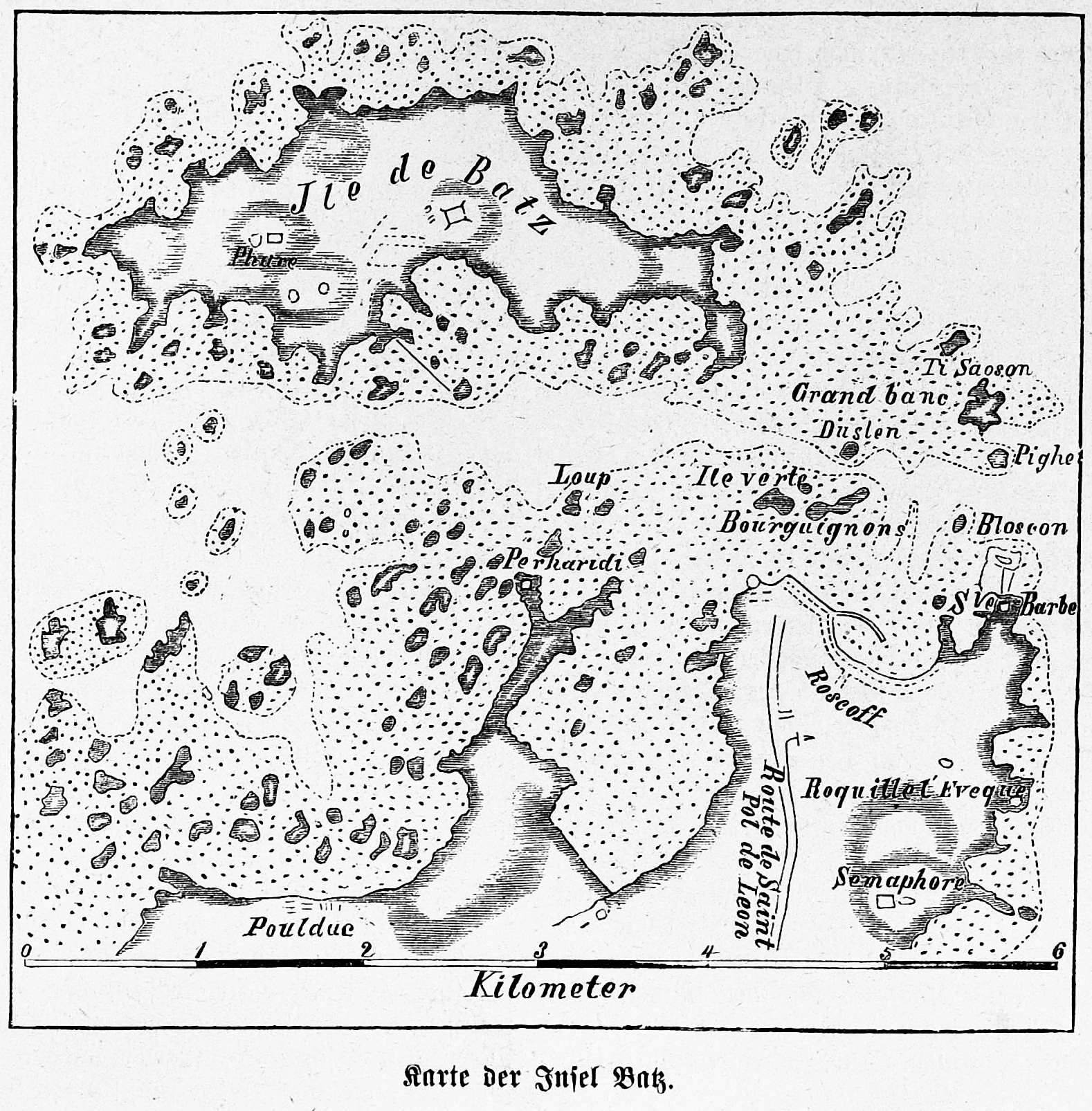 caption: "Karte der Insel Batz.Template:CRef"